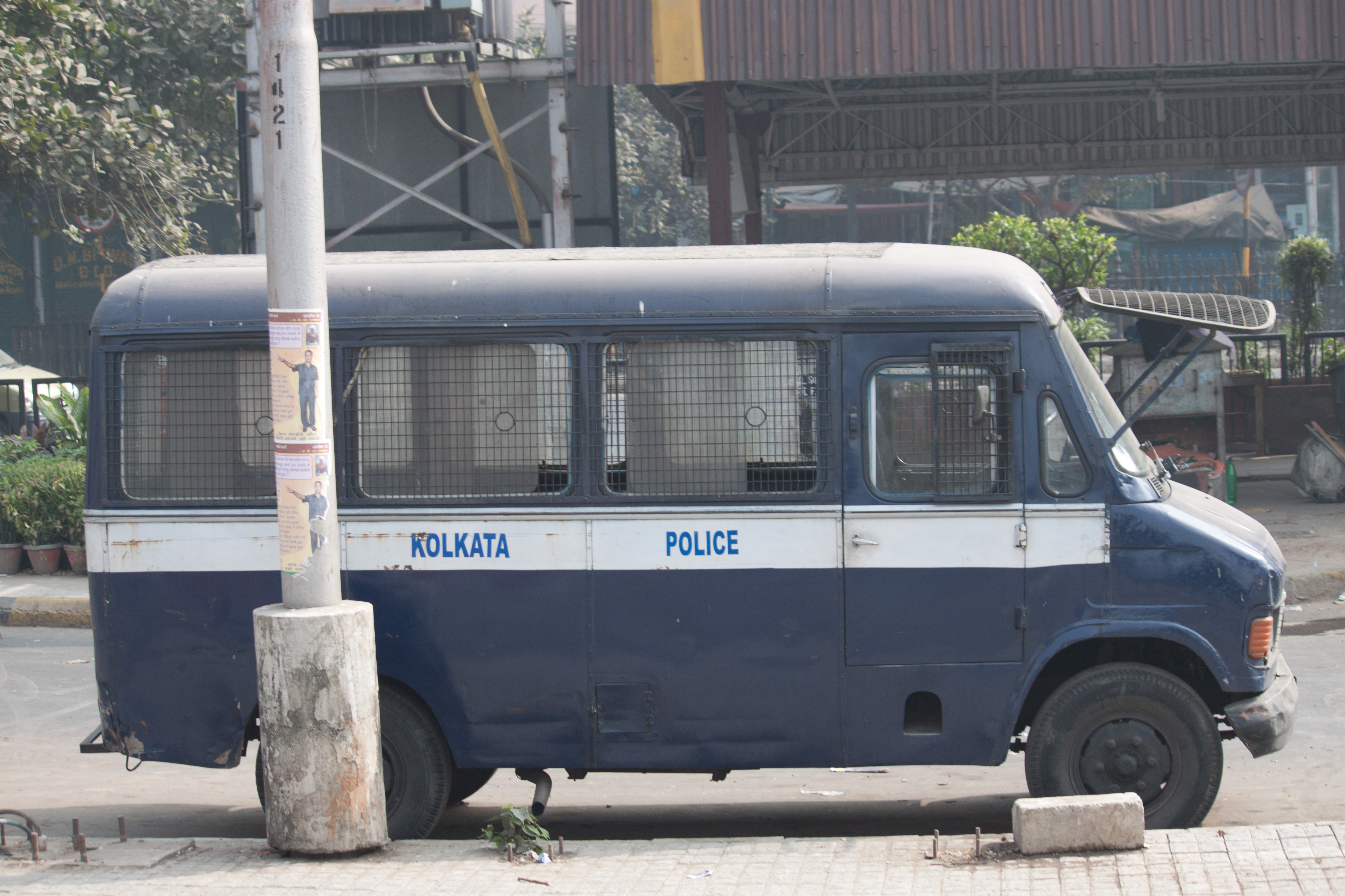 Van of Kolkata Police at Dalhousie East.Made on a Tata 407 chassis, like this other Indian police van.